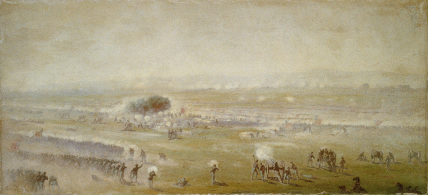 Picketts charge on the Union centre at the grove of trees about 3 PM